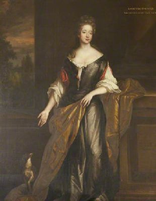 Lady Dorothy, Marchioness of Halifax (1640-1670), wife of George Saville, 1st Marquess of Halifax